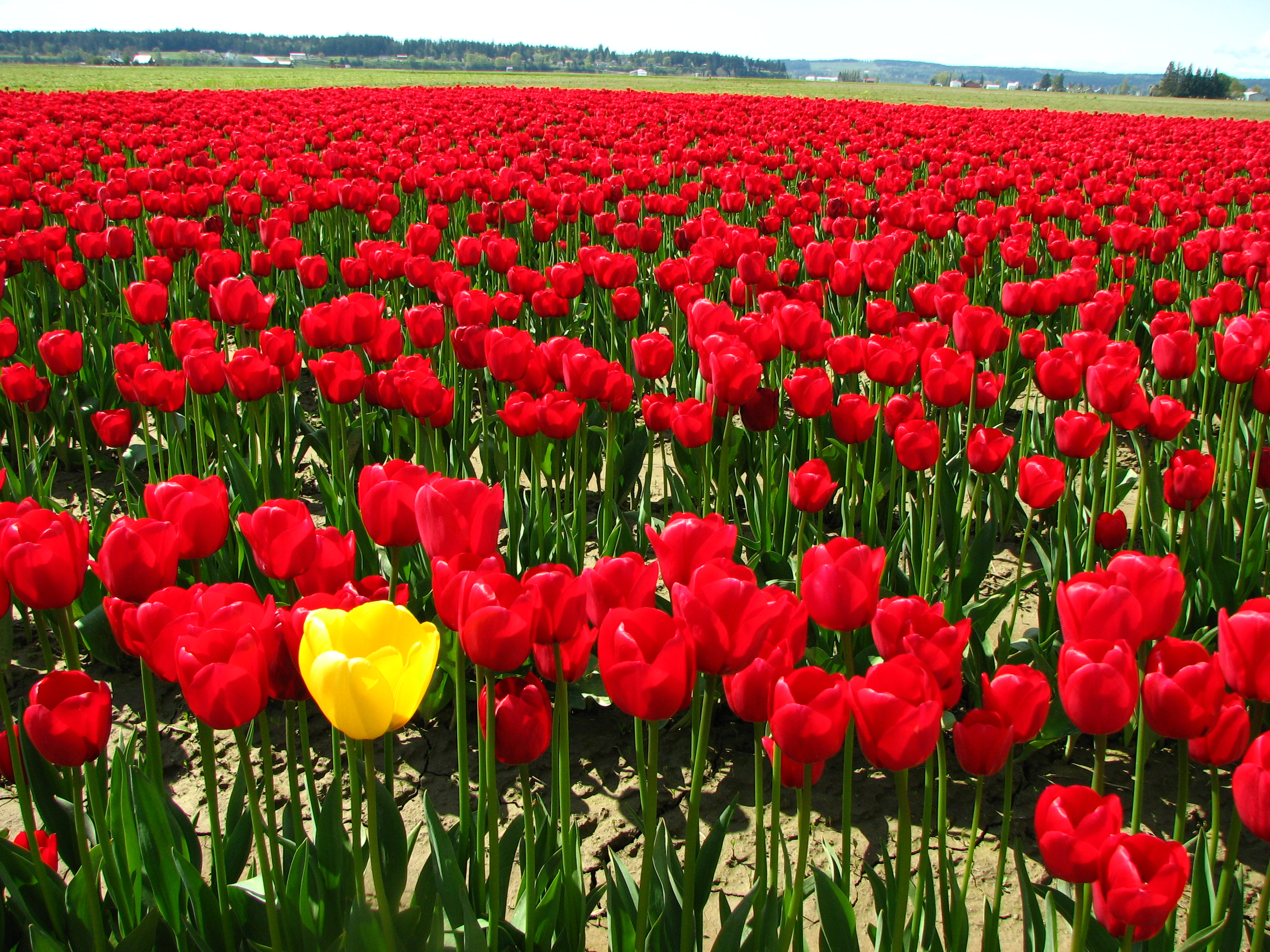 A picture of yellow tulip in a field of red tulips.